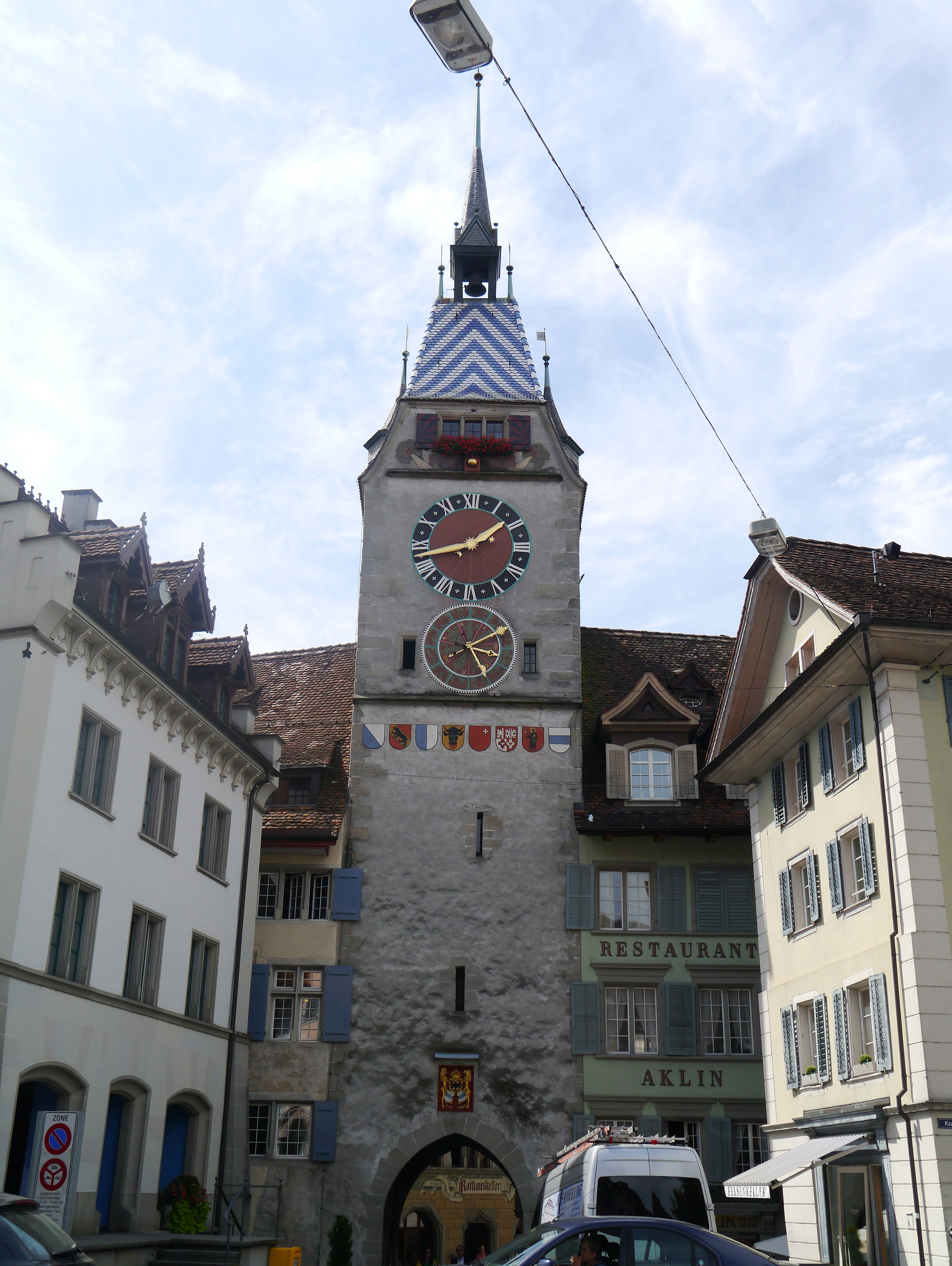 Clock tower, Zug, Canton of Zug, Central Switzerland